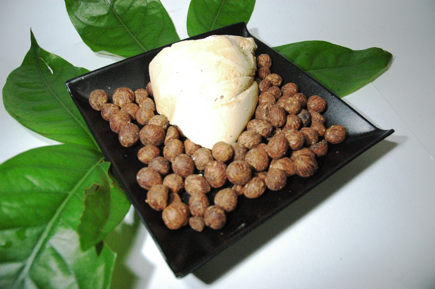 Ucuuba butter